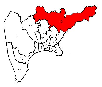 Location of canton of Nice-13 in relation to the city of Nice, Alpes-Maritimes, France.